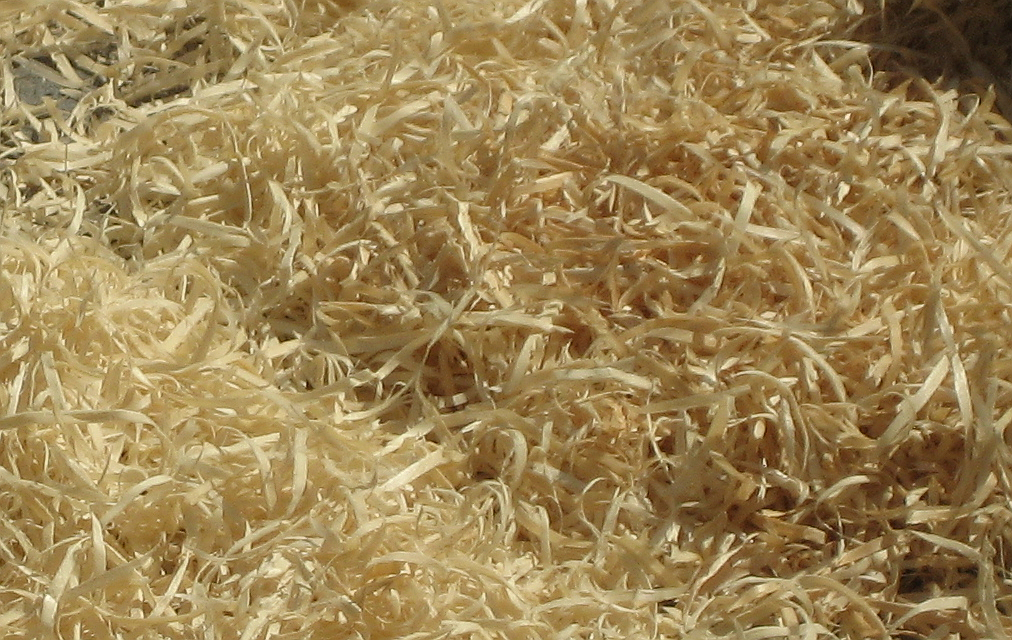 Wood wool